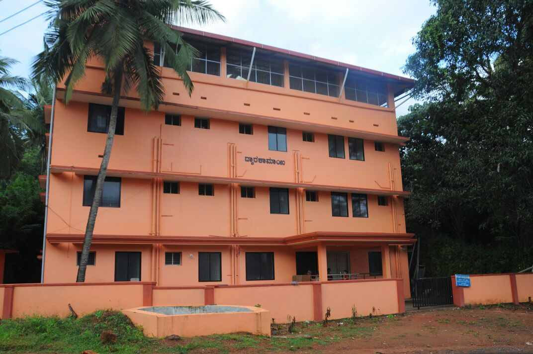 ದ್ವಾರಕಾಮಾಯಿ